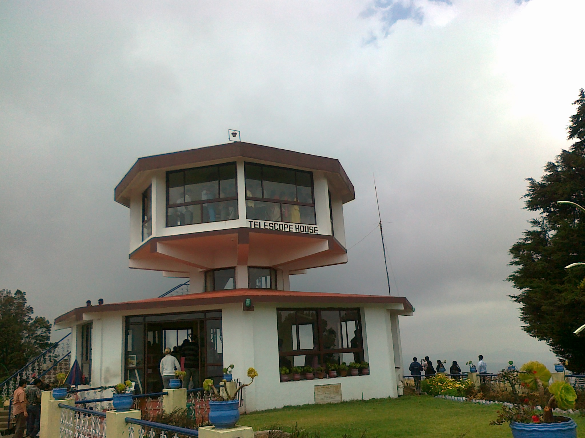 Doddabetta telescopic house